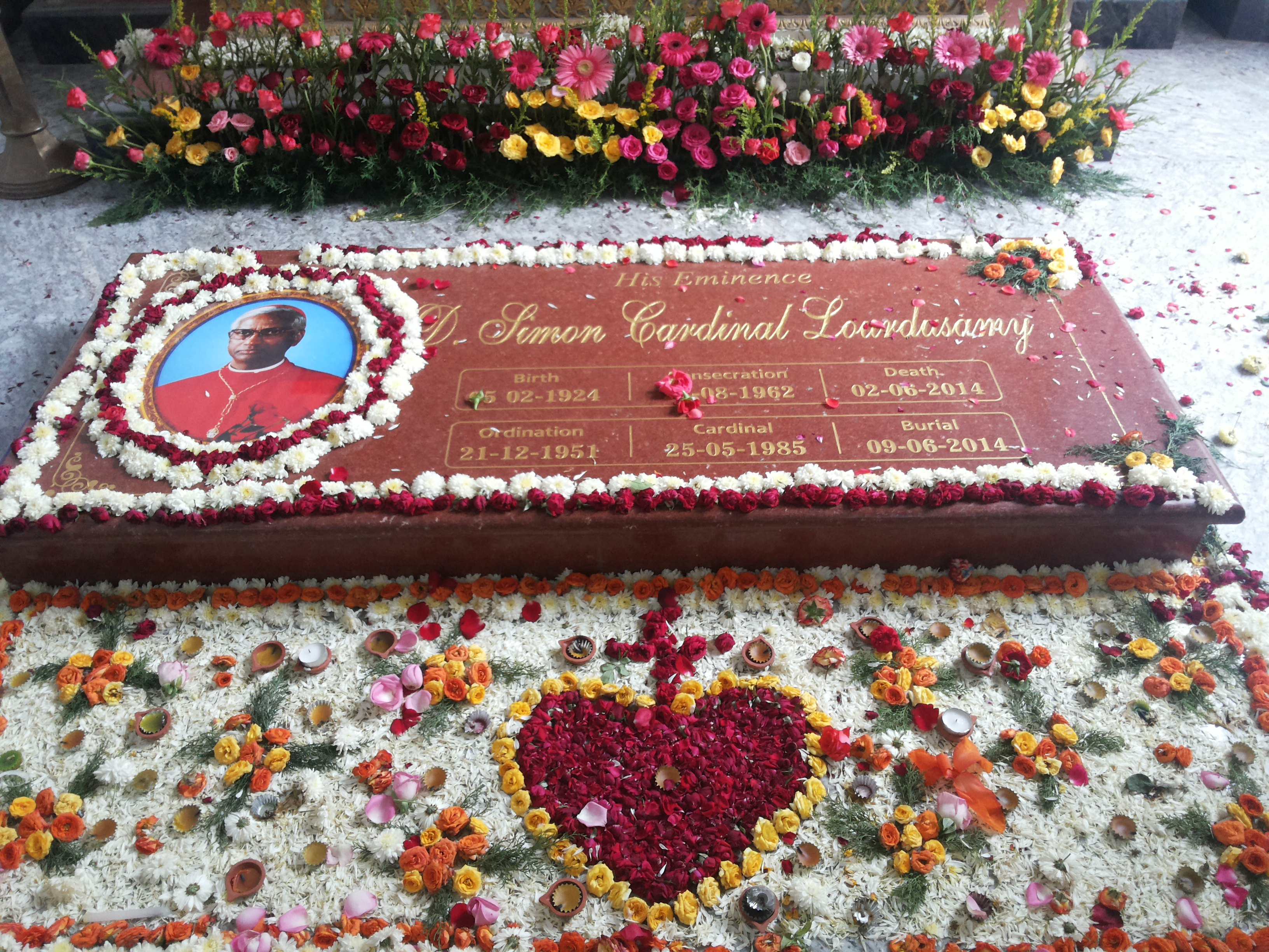 Tomb of Caridnal Lourdusamy at Immaculate Conception Cathedral, Puducherry